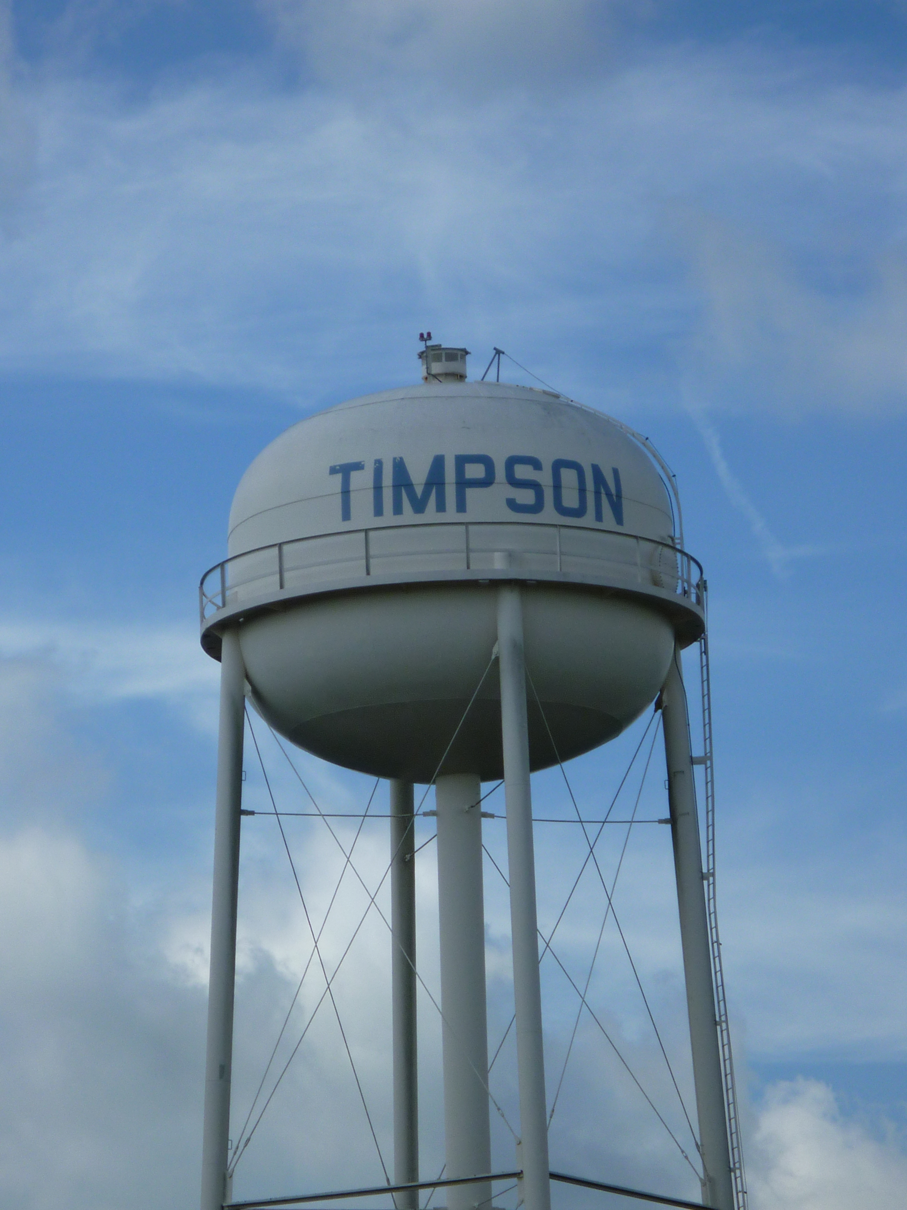 Photo by Nick Juhasz.